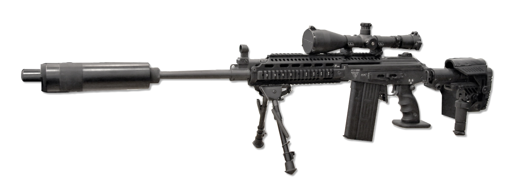 IWI Galil Sniper (Galatz) semi-automatic sniper rifle